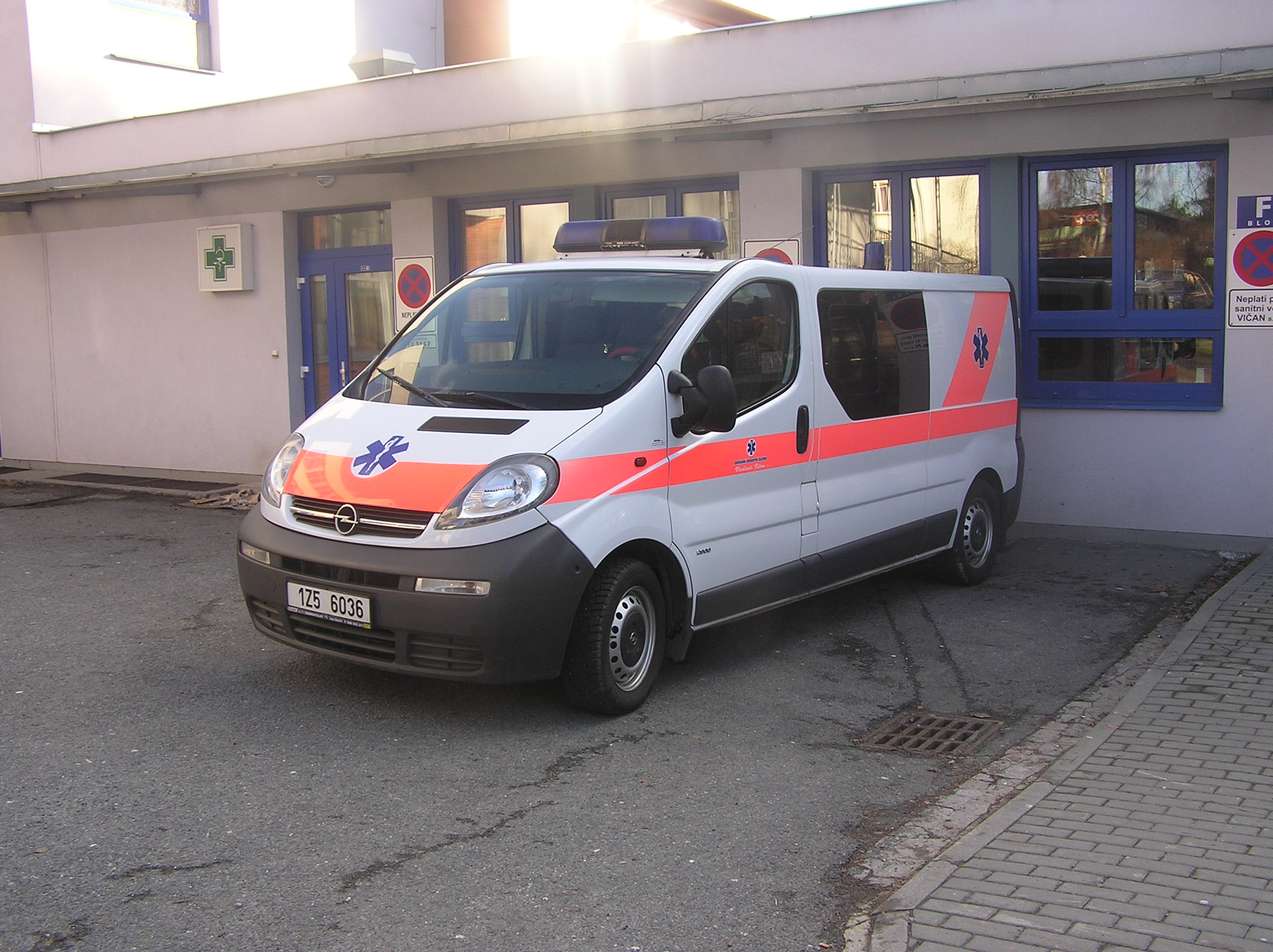 Ambulance class A1/A2 in Valašské Meziříčí, Zlín Region, Czech Republic It is not ambulance of the EMS